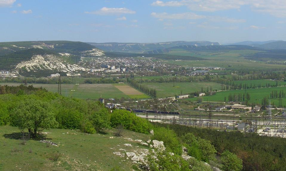 The settlement Saharnaya Golovka, Sevastopol